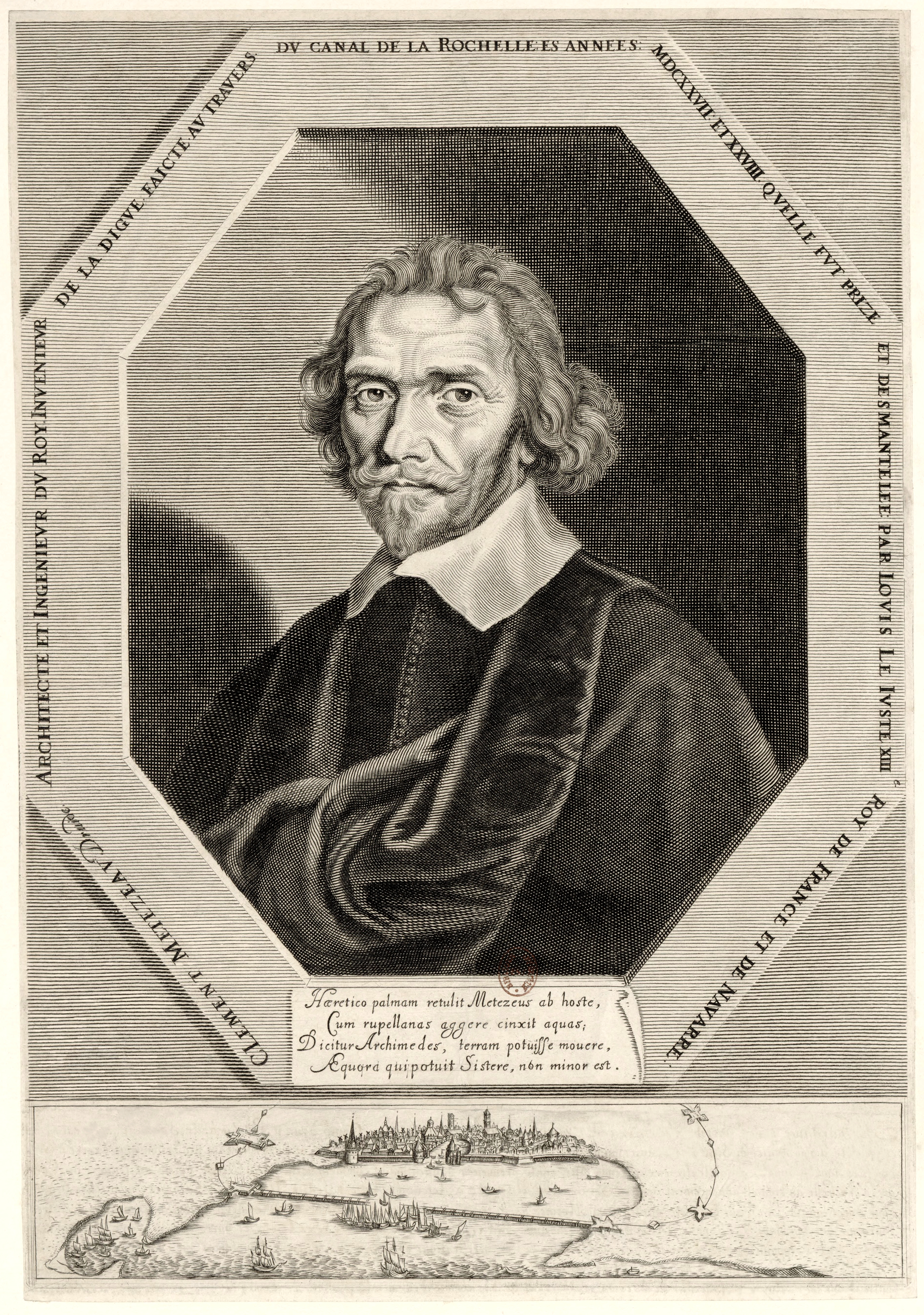 Clément Métezeau (1581 - 1652), french architect.